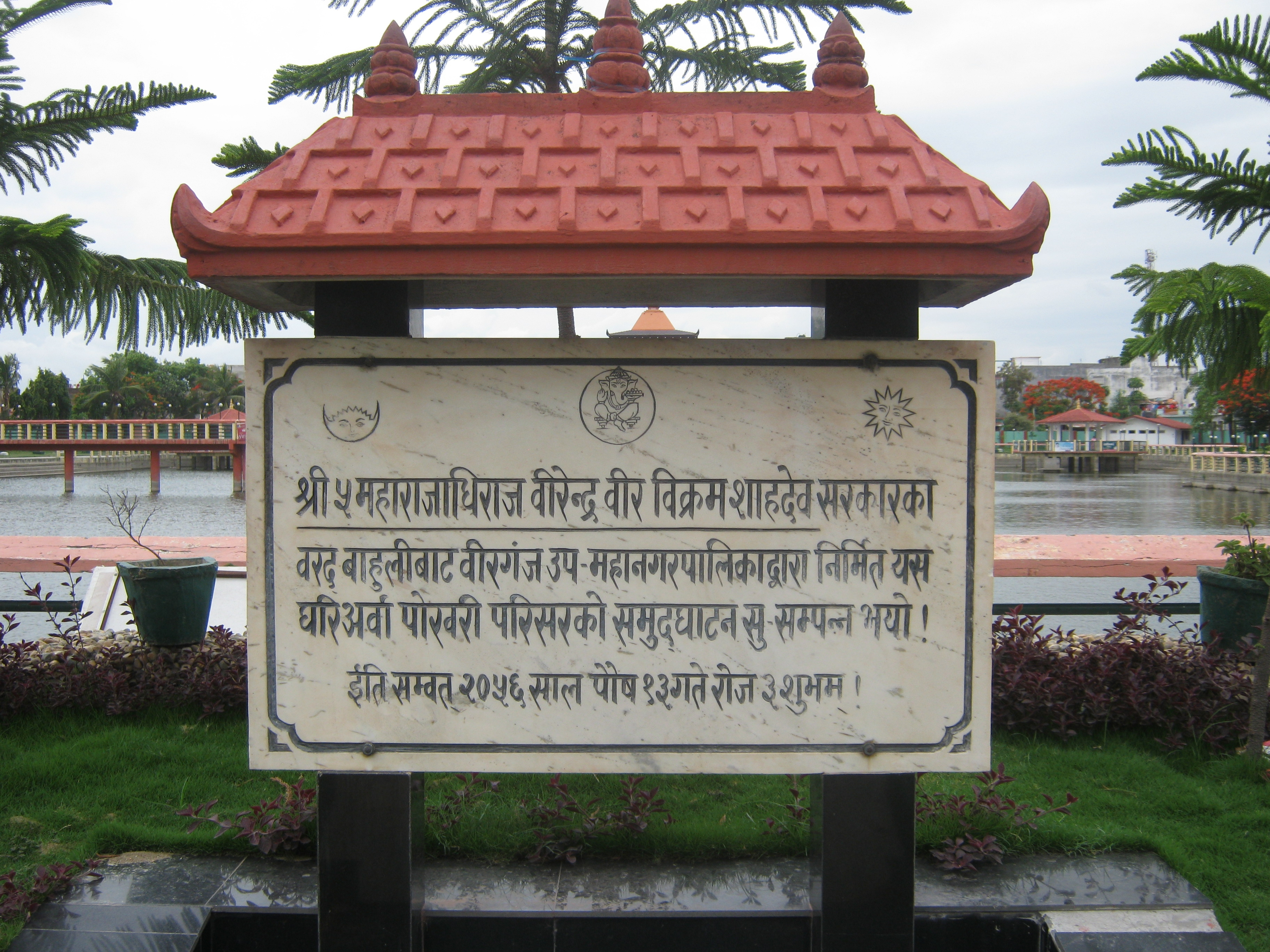 description saying king birendra inaugurated the ghadiarwa lake in birgunj in 1998.